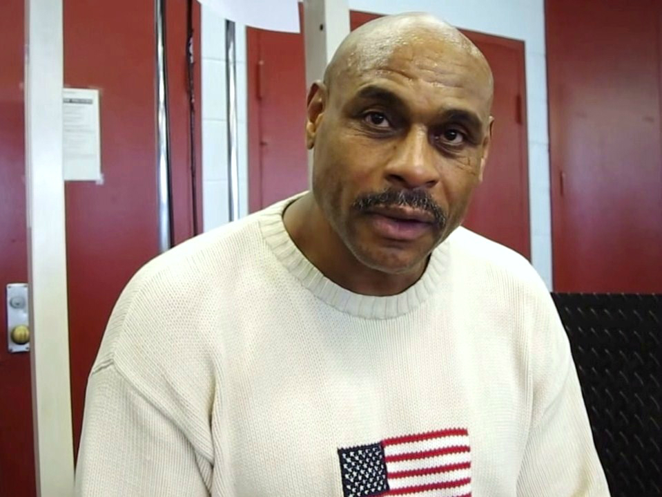 Oliver McCall ("Atomic Bull"), a talented heavyweight boxer from the United States.